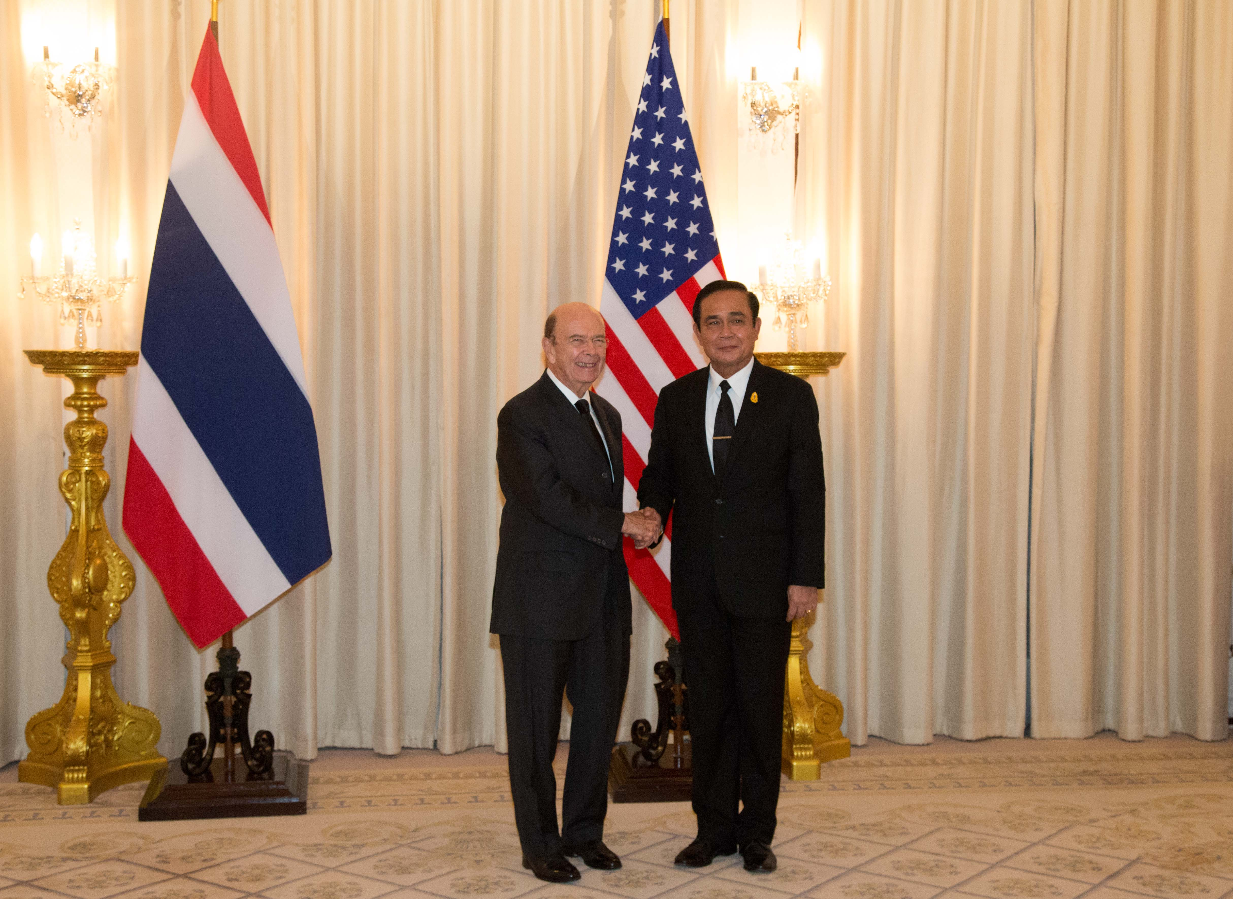 U.S. Secretary of Commerce Wilbur Ross visited in Thailand on September 27-28, 2017. He met with Prime Minister Prayuth Chan-o-cha and addressed members of the American Chamber of Commerce. On his second day in Thailand, U.S. Secretary of Commerce Wilbur Ross signed the condolence book honoring the late King BA. During his meetings with Thai government officials, business leaders, and entrepreneurs, Secretary Ross stressed that Thailand is a vital partner of the United States and emphasized President Trump’s commitment to Thailand and the Asia-Pacific region. The Secretary’s visit, his first to an ASEAN nation as Secretary of Commerce, aims to deepen economic cooperation between Thailand and the United States.